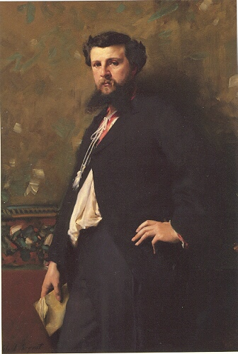 Portrait of French writer Édouard Pailleron (1834-1899)